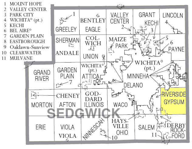 Map of Sedgwick County, Kansas highlighting Gypsum Township